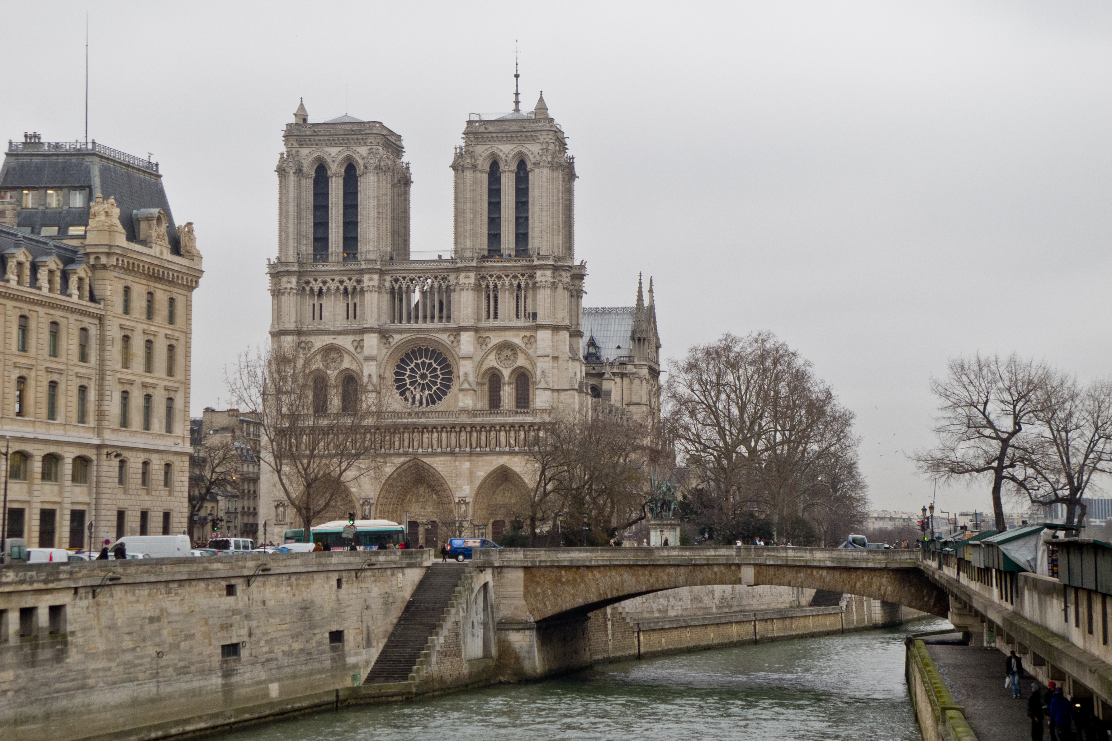 West facade of Notre-Dame de Paris and Petit Pont, París, France.